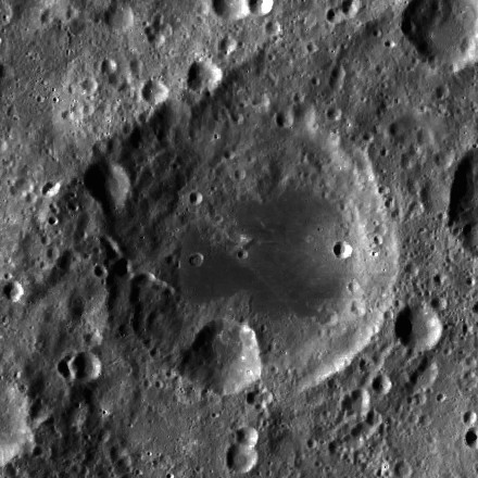 Isaev lunar crater - LROC image